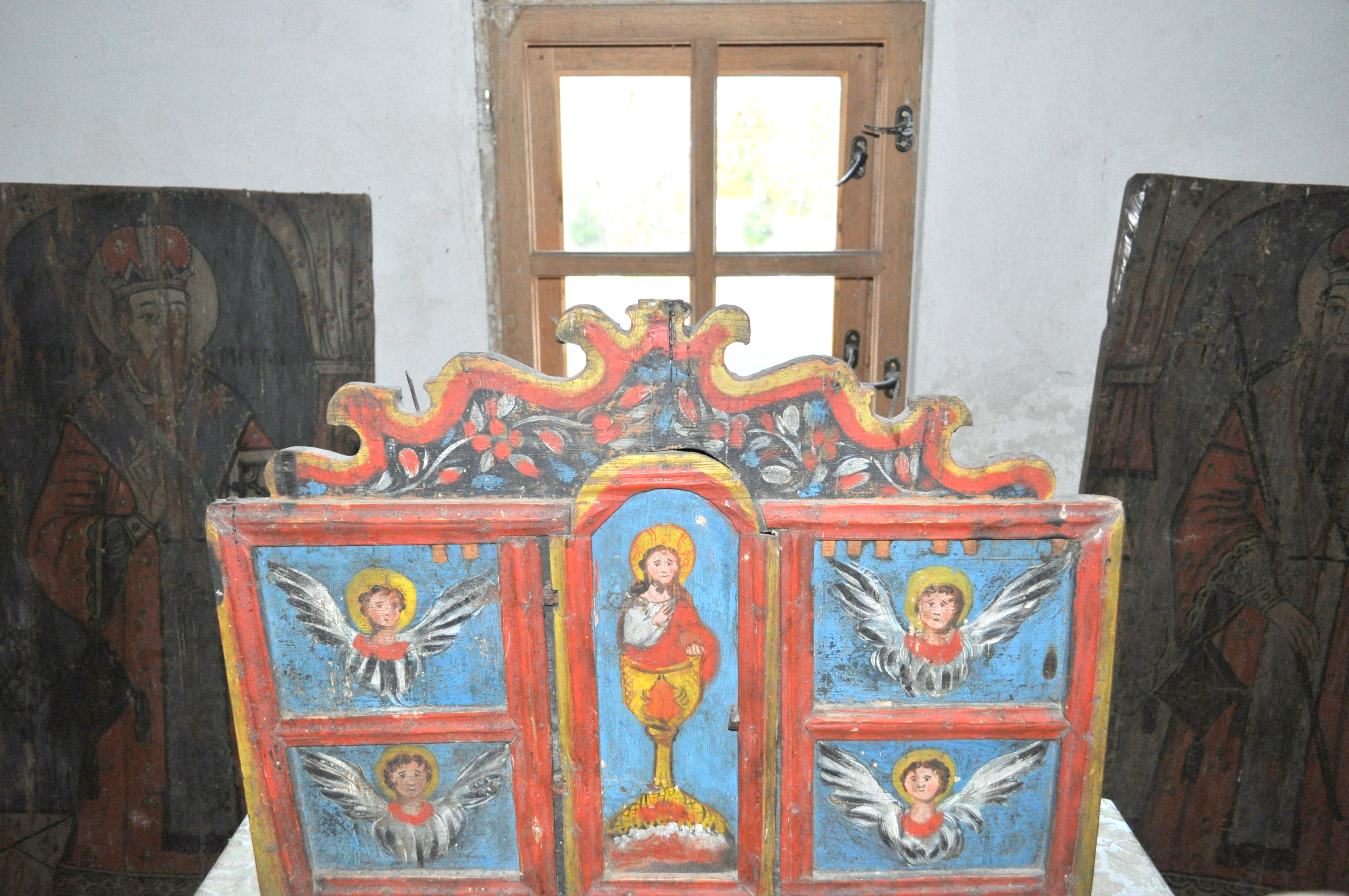 the Izbuc Orthodox monastery near Călugări village, Codru-Moma Mountains, Romania